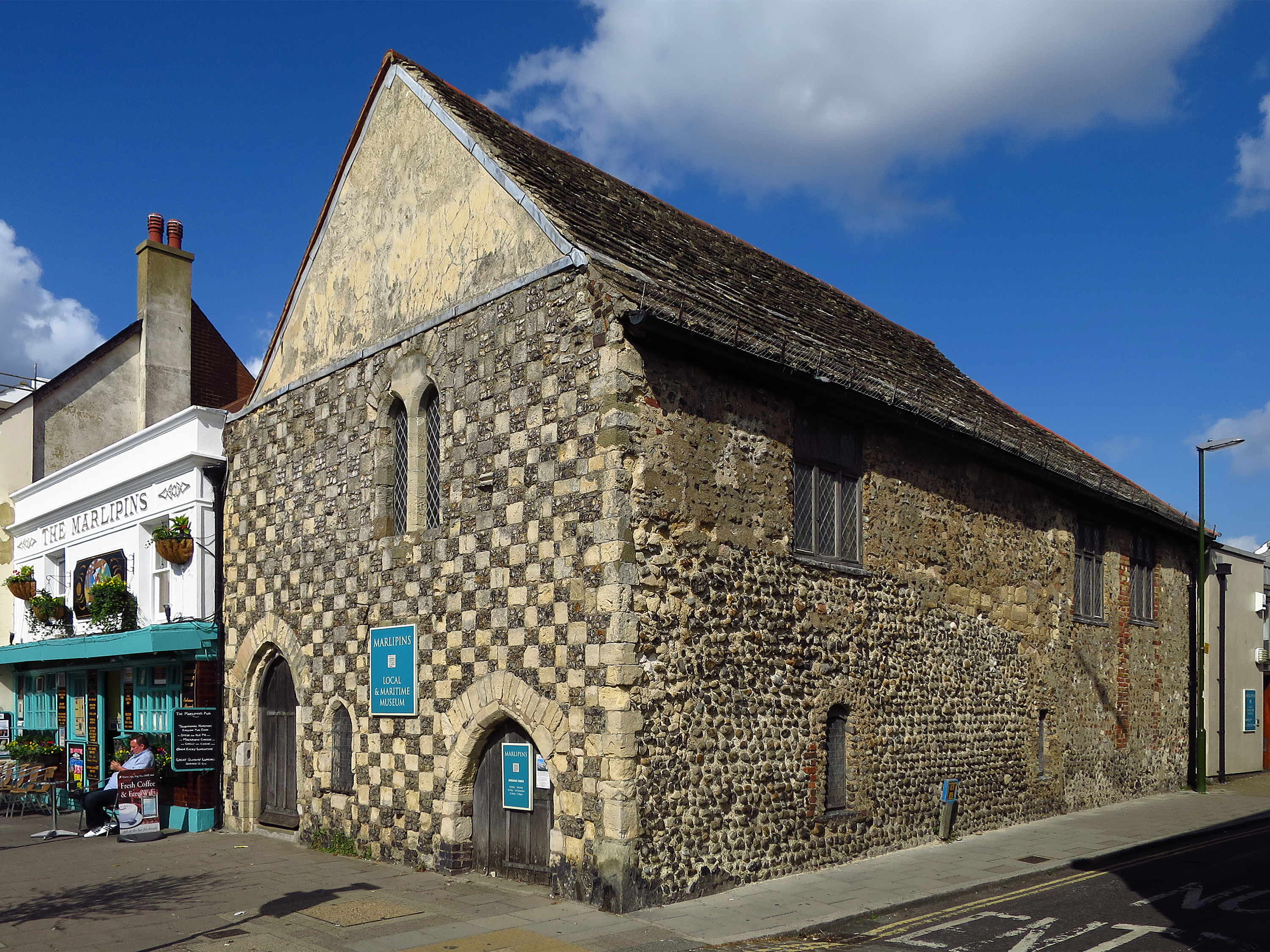 The Marlipins, Shoreham-by-Sea, West Sussex, England. Wikidata has entry Q17644135 with data related to this item.